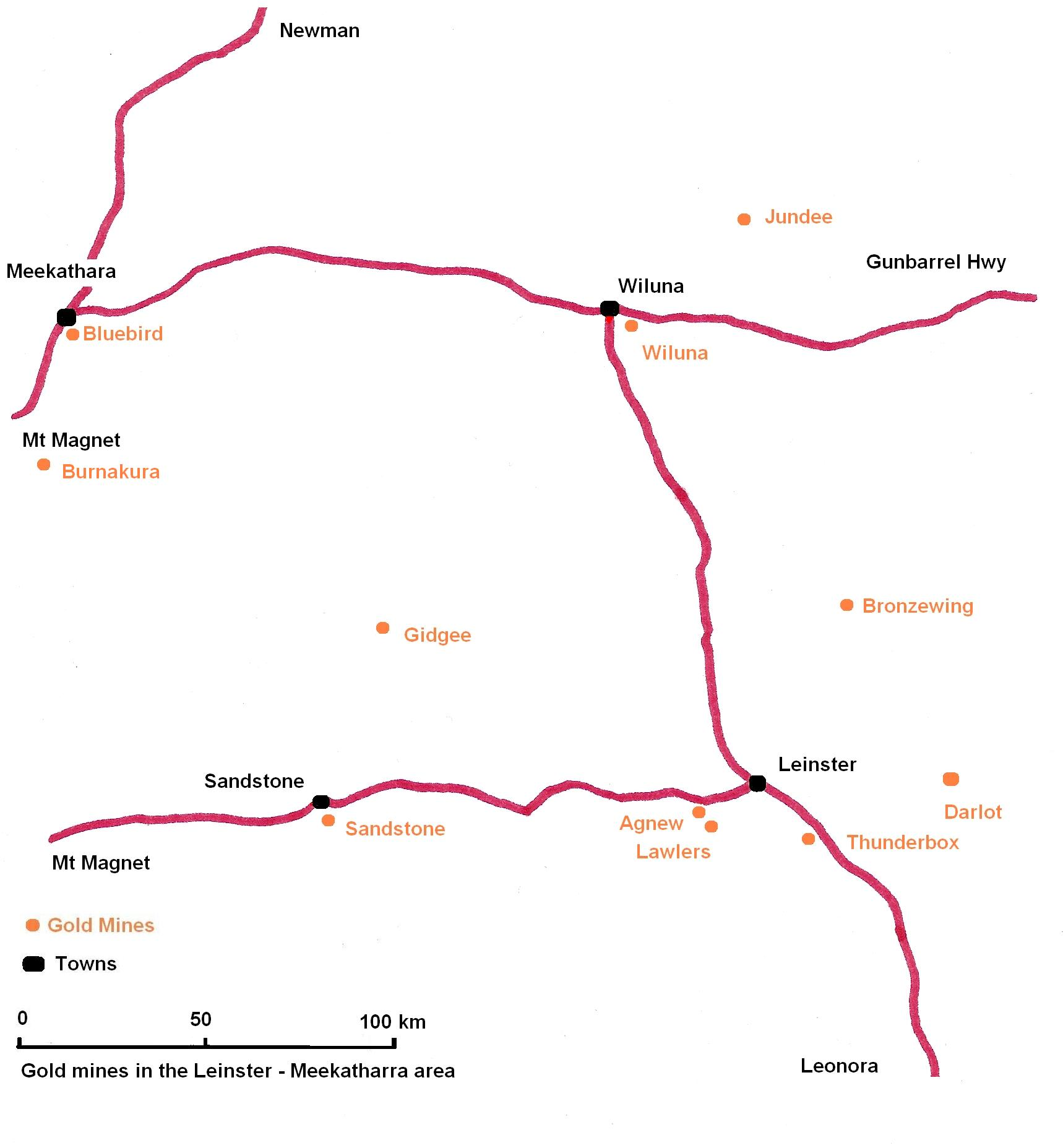 Map of gold mines in the Meekathara - Leinster region of Western Australia